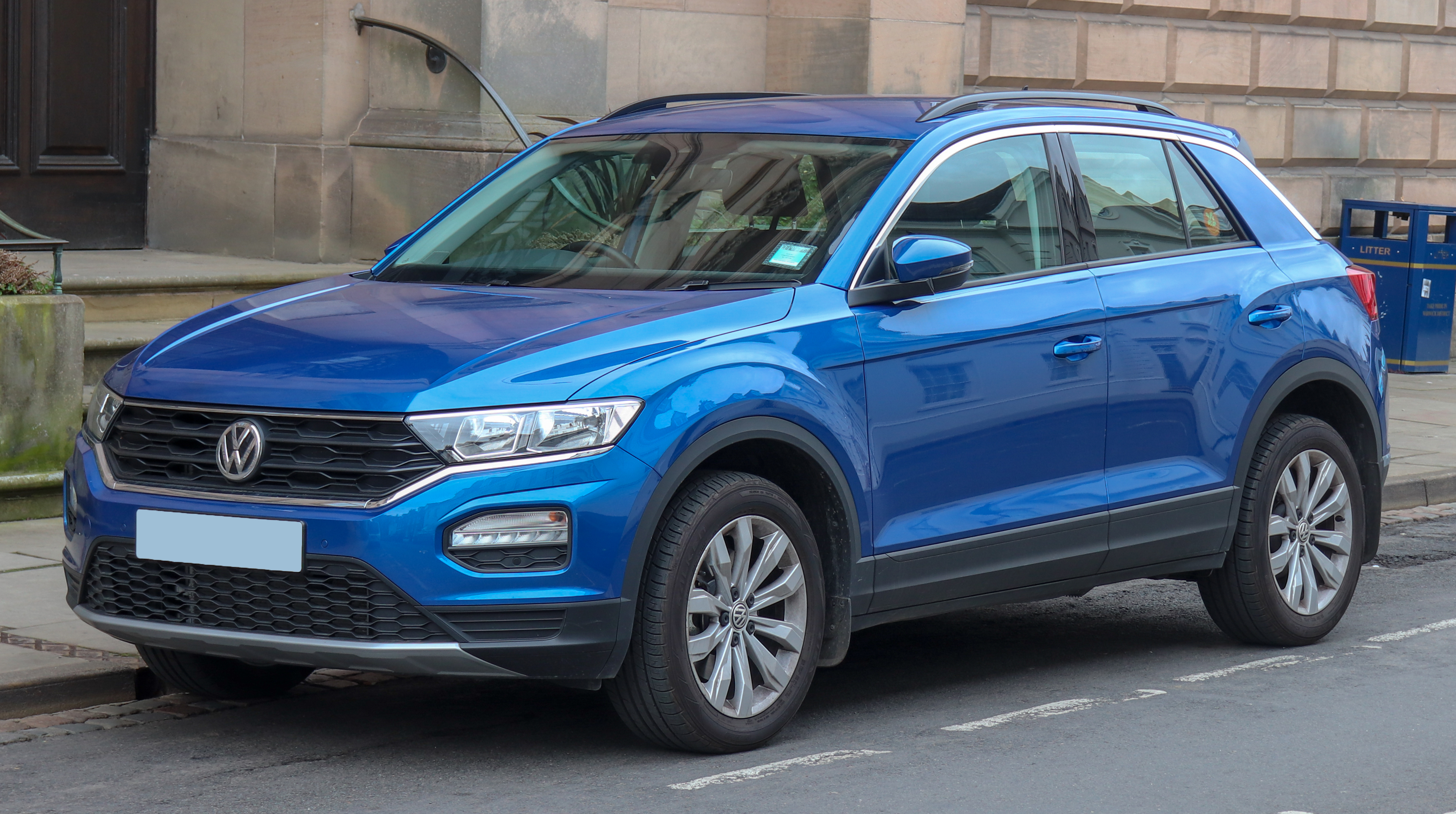 2018 Volkswagen T-Roc SE TSi EVO 1.5 Front Taken in Warwick